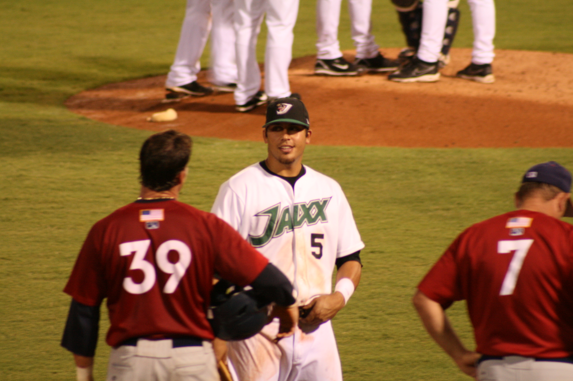 Matt Tuiasosopo playing for the West Tenn Diamond Jaxx in 2007.